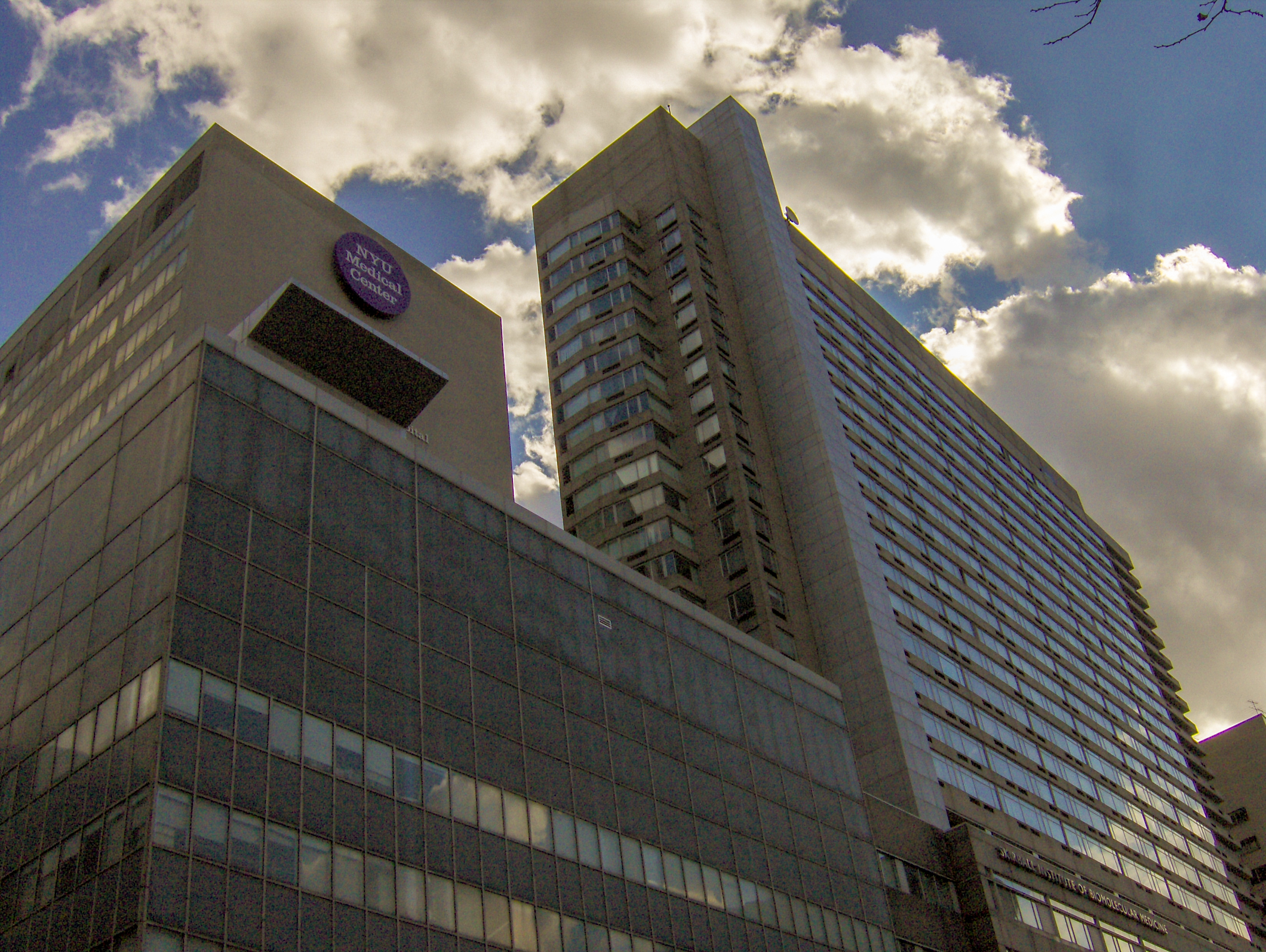 NYU Medical Center before name change.